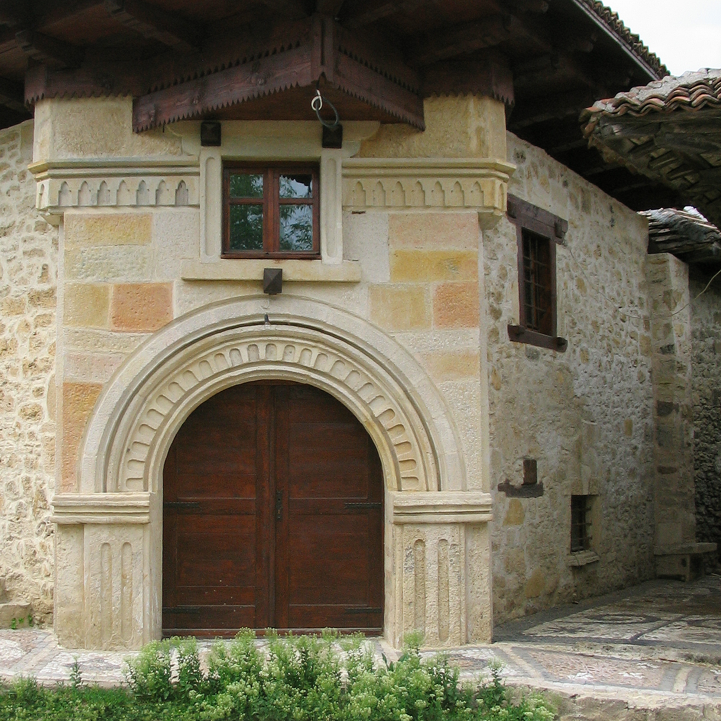 The Rajac wine cellars are an authentic example of ethno-architecture in Serbia and the region. They are under a strict protection regime as a rare spatial cultural and historical entity, namely, a cultural heritage of exceptional importance.